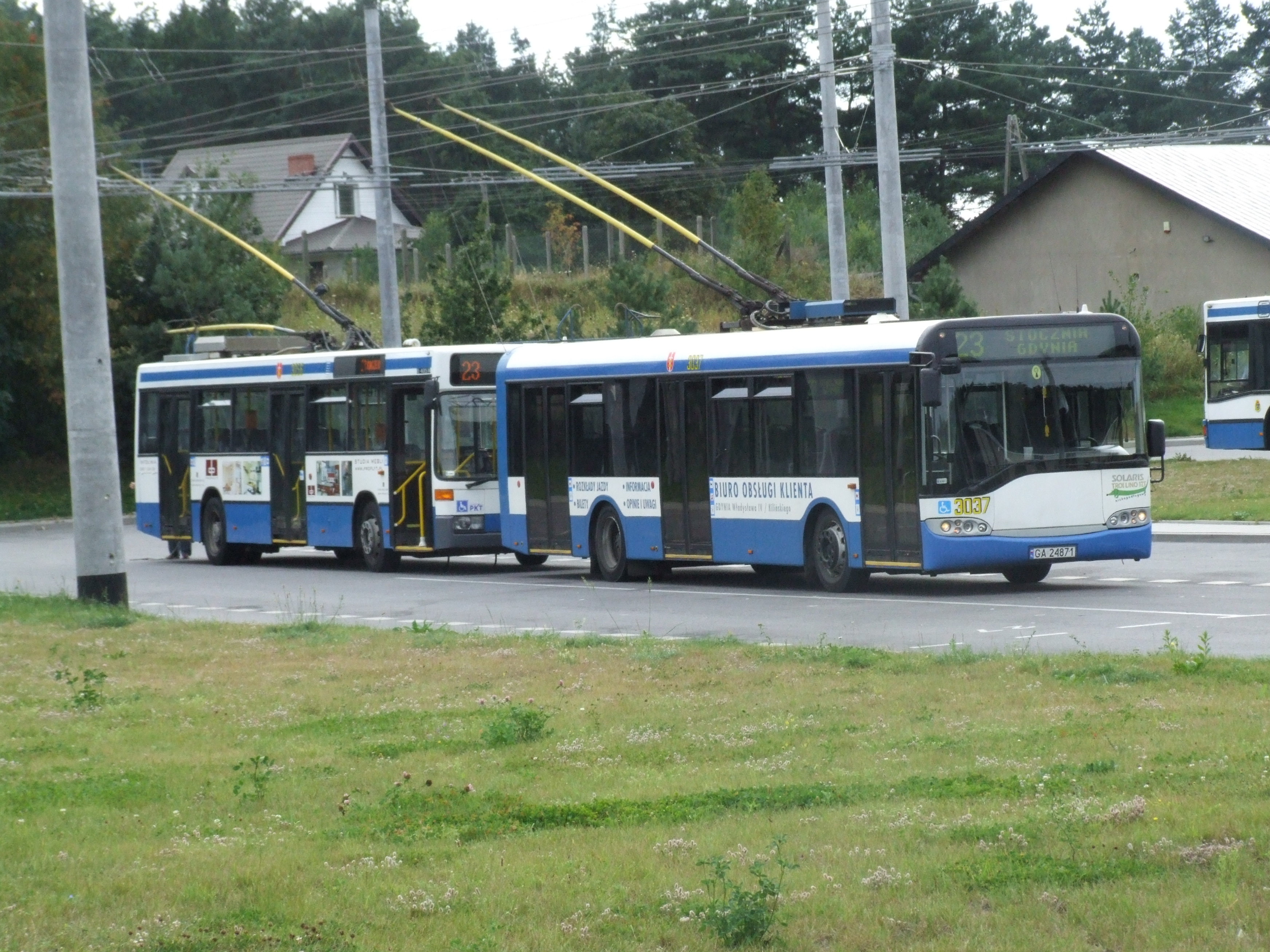 Solaris Trollino 12T (#3037) in Gdynia, Poland. Built 2001.